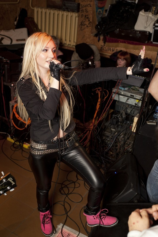 КсЮ!!!